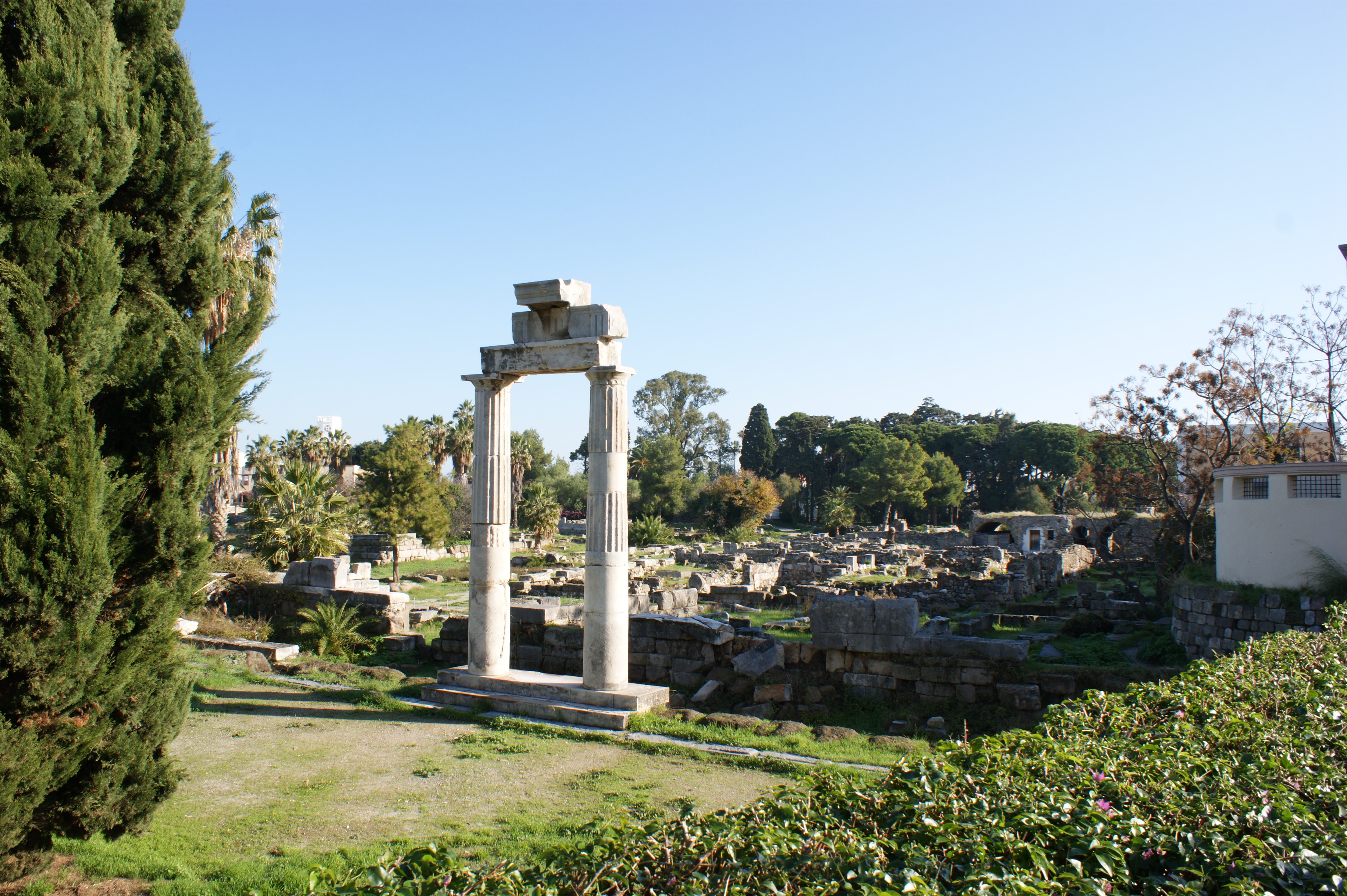 Archaeological quater "Agora" in the city of Kos on the Greek island of Kos. Former medieval quarter with a city wall, destroyed in an earthquake in 1933. Among them were historical finds from the Hellenistic and Roman times.